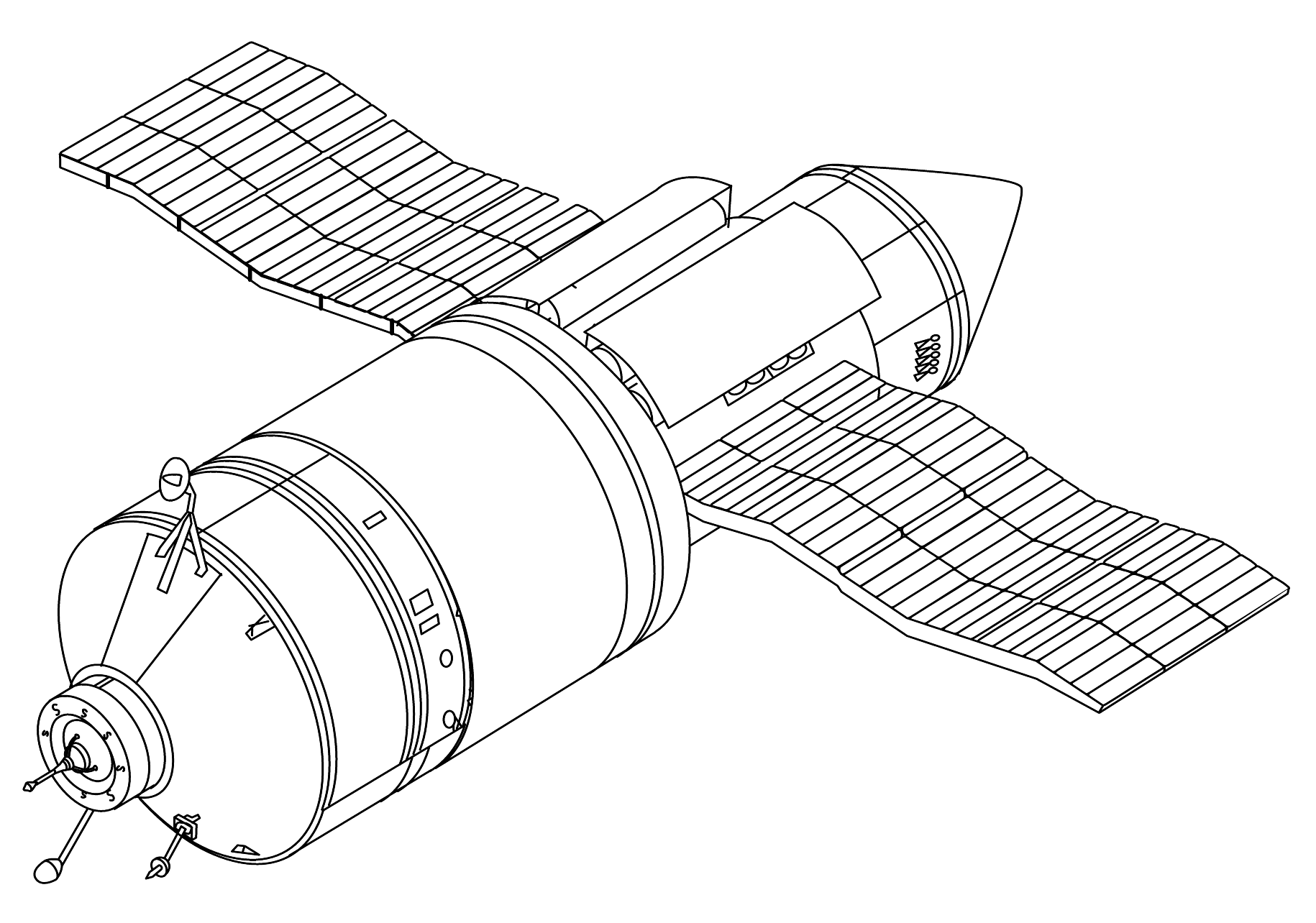 A diagram of the Kvant-1 module of the Soviet/Russian space station Mir, shown attached to the TKS spacecraft that functioned as a tug during the module's approach to the station. The streamlined fairing covering the aft end of the TKS (right) pointed upwards at liftoff, and formed the nose of the launch stack.